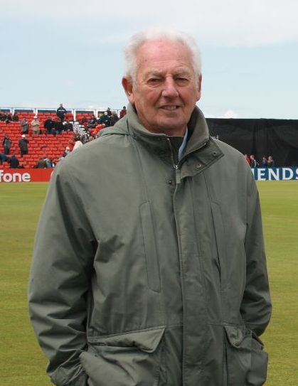 Don Shepherd, ex-Glamorgan County cricketer.